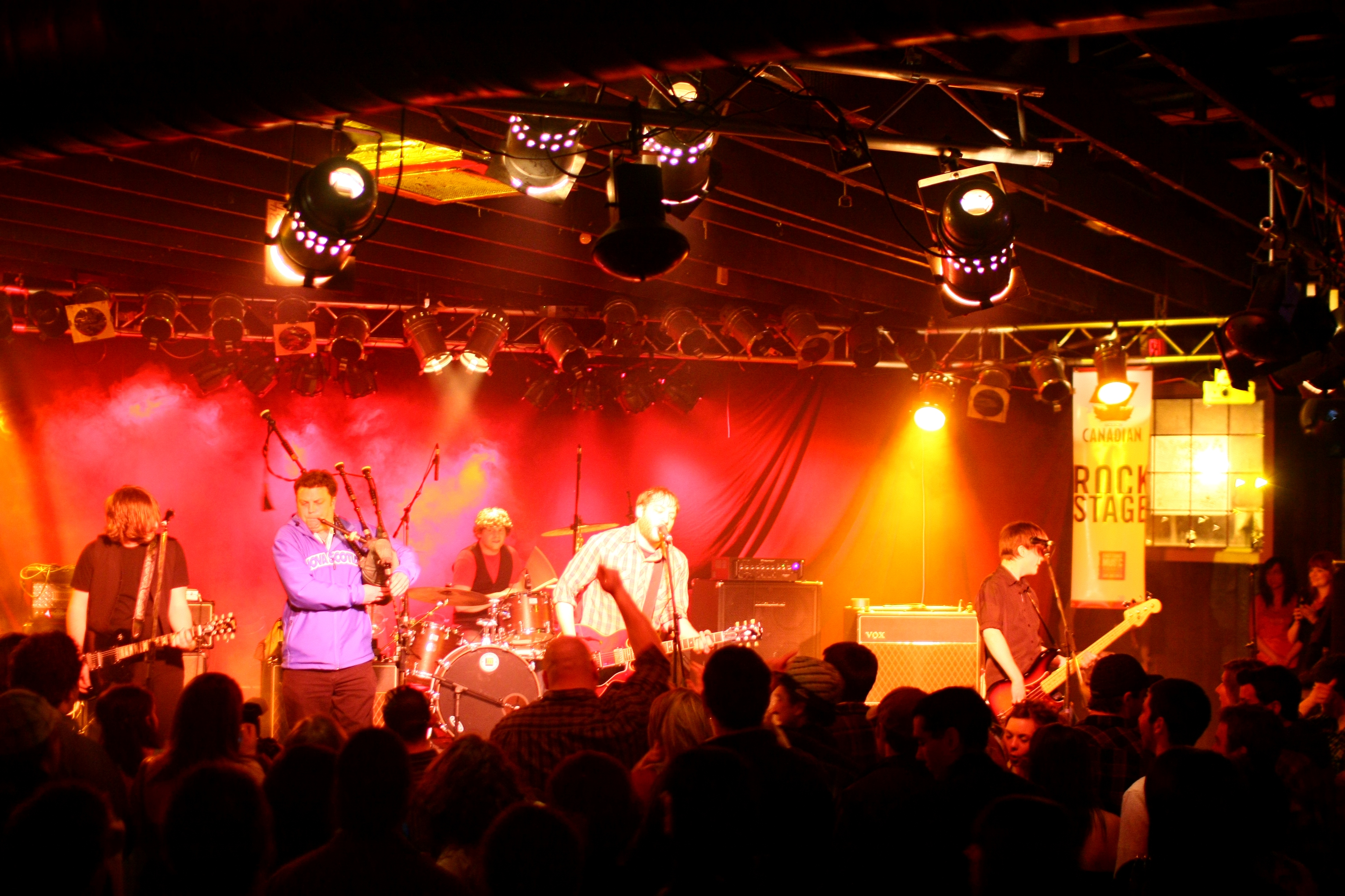 East Coast Canadian rock'n'bagpipe band Alert the Medic, photographed at the 2010 ECMAs, taken on March 7, 2010 in Westmount, Sydney, NS